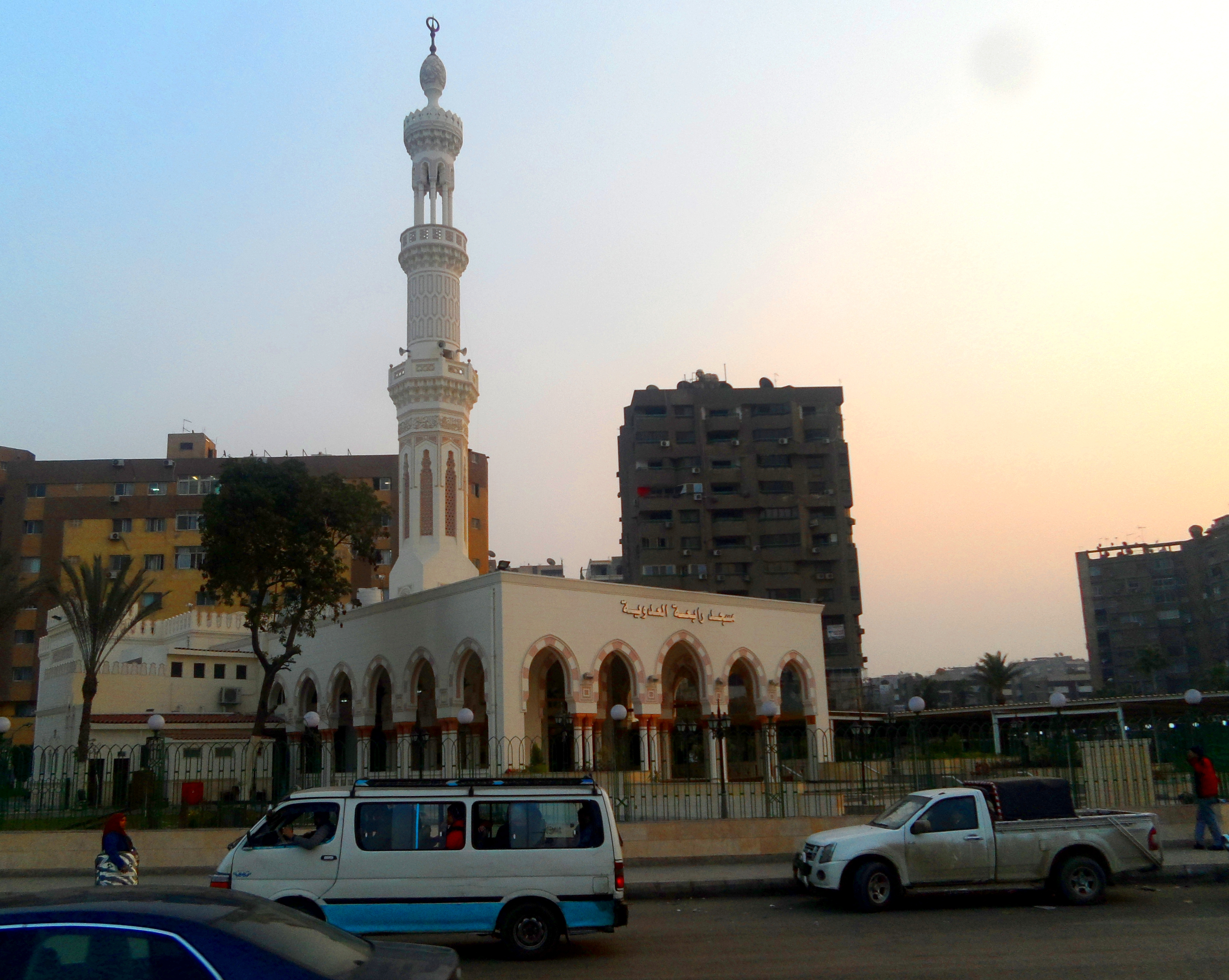 Rabaa Al Adawya mosque